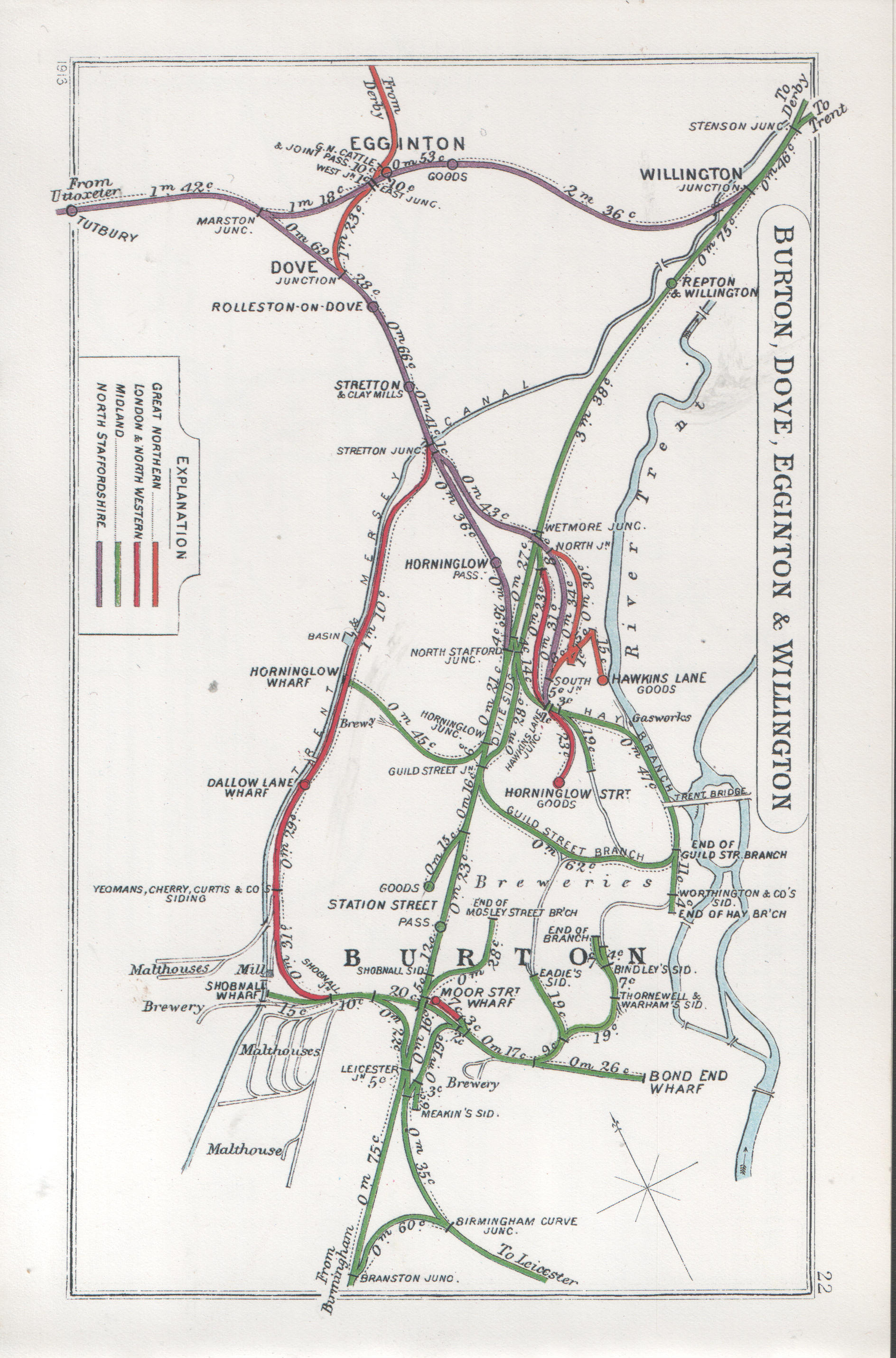 Pre Grouping railway junction around Burton, Dove, Egginton & Willington